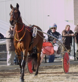 Captain Joy parading at Menangle